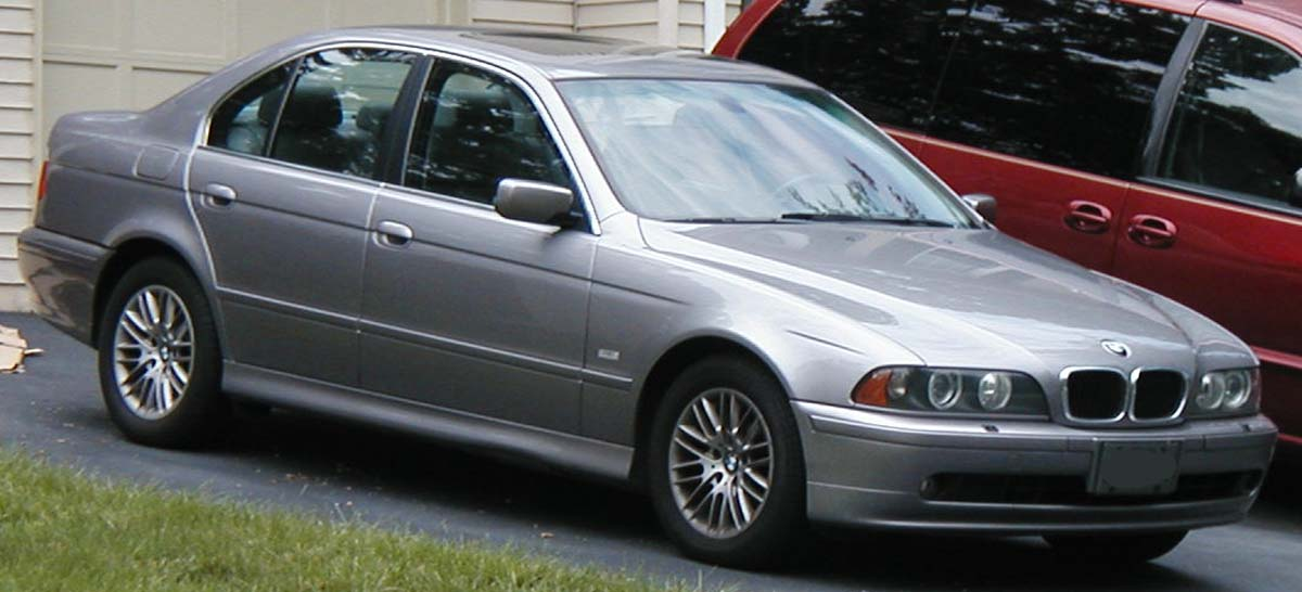 1996-2003 BMW 5-Series photographed in USA.